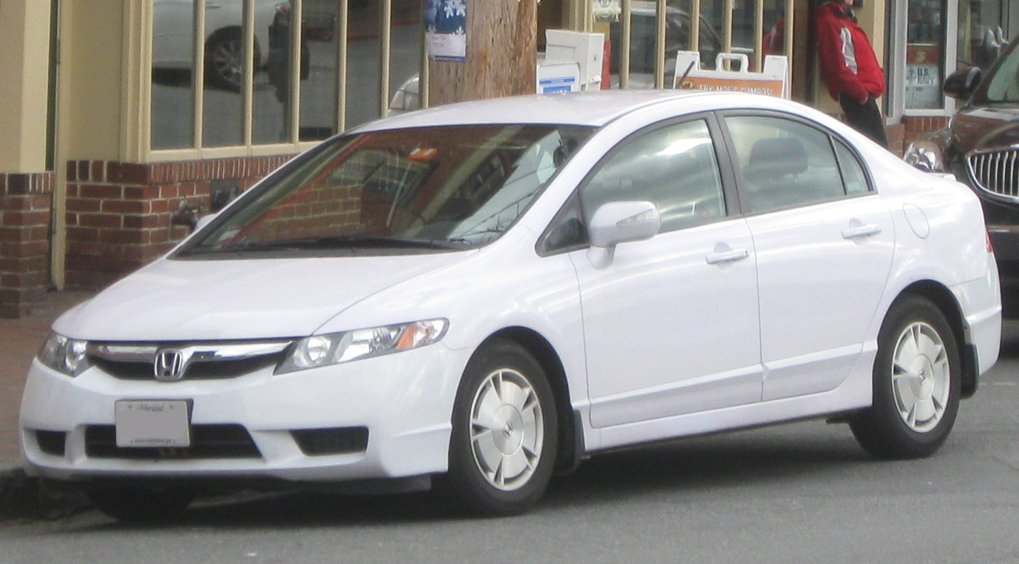 2009-2010 Honda Civic Hybrid photographed in Annapolis, Maryland, USA.